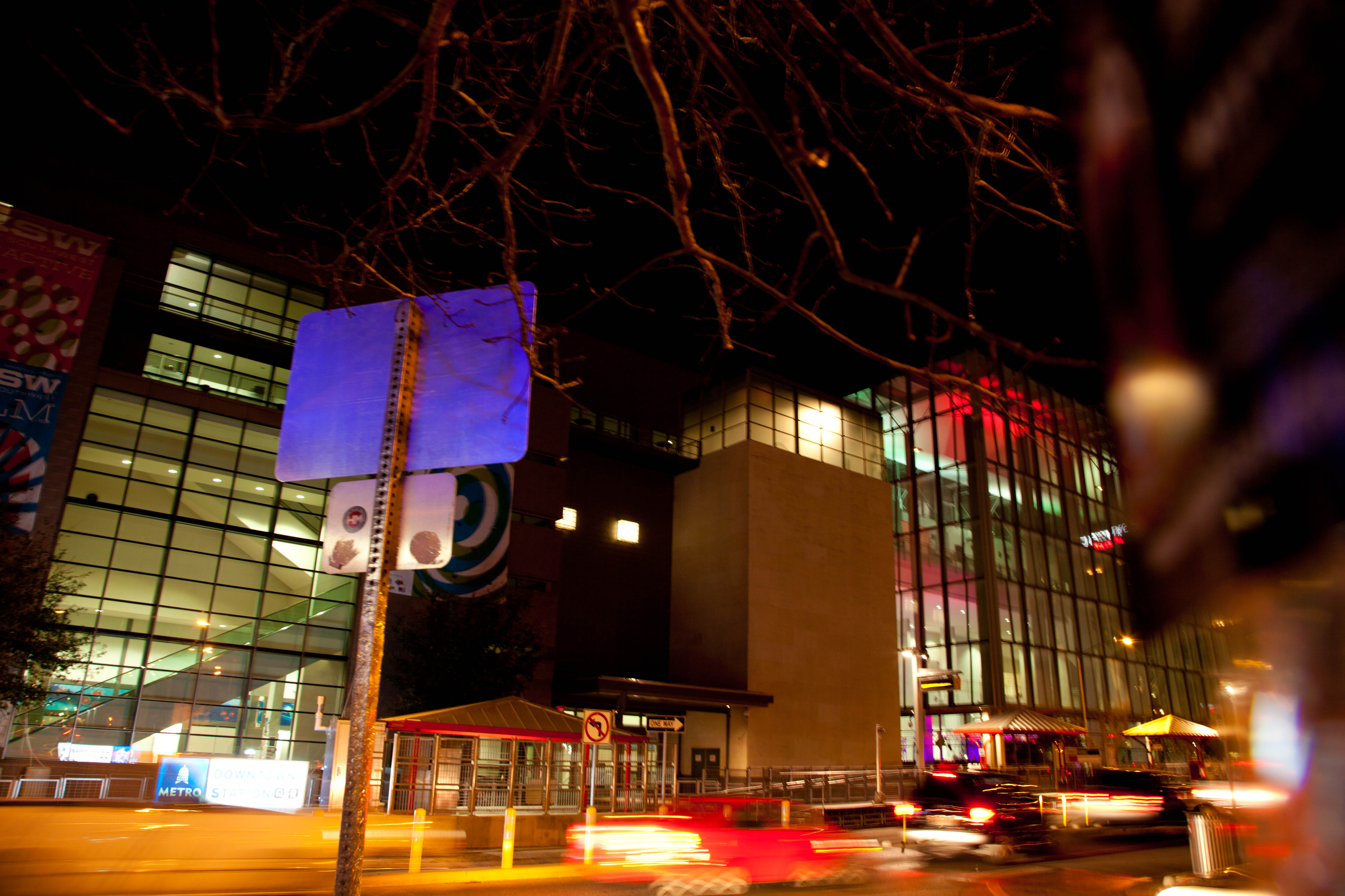 Austin Texas, Convention Center at night on March 11, 2011.